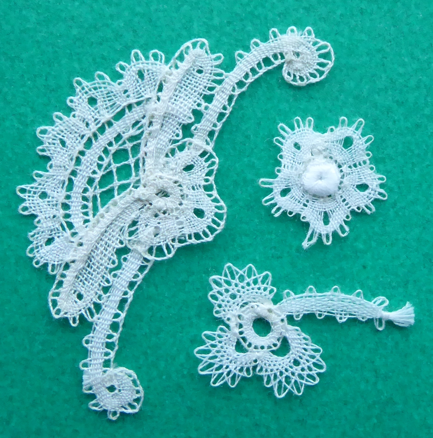 part lace fragments